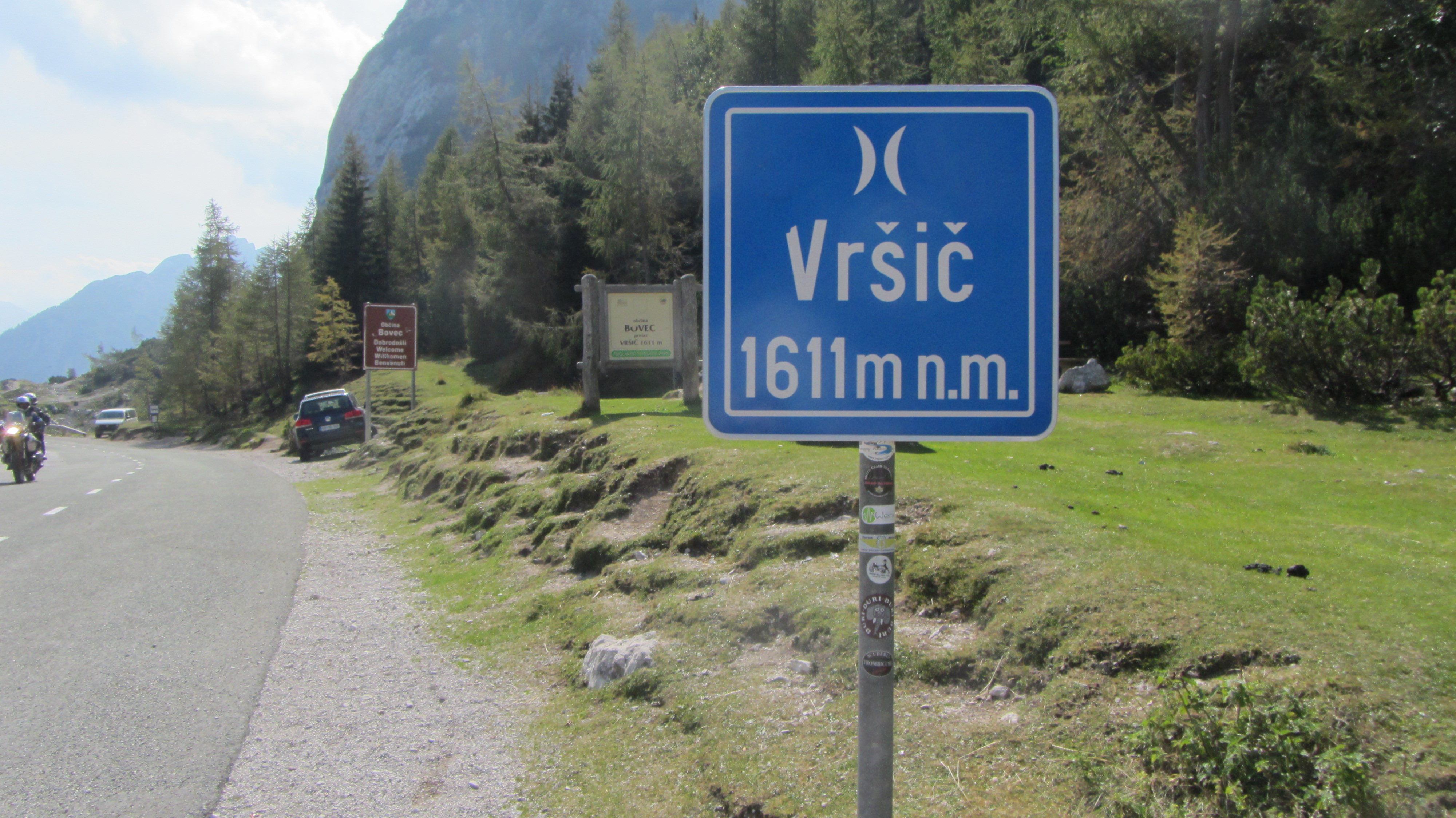 The pass, 1611m